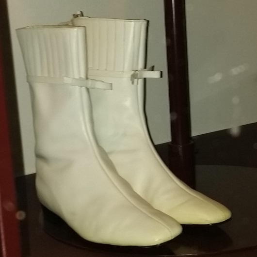 Pair of white kid leather go-go boots by André Courrèges , 1965, as displayed in the Victoria and Albert Museum.